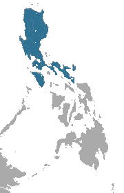 Luzon Shrew (Crocidura grayi) range